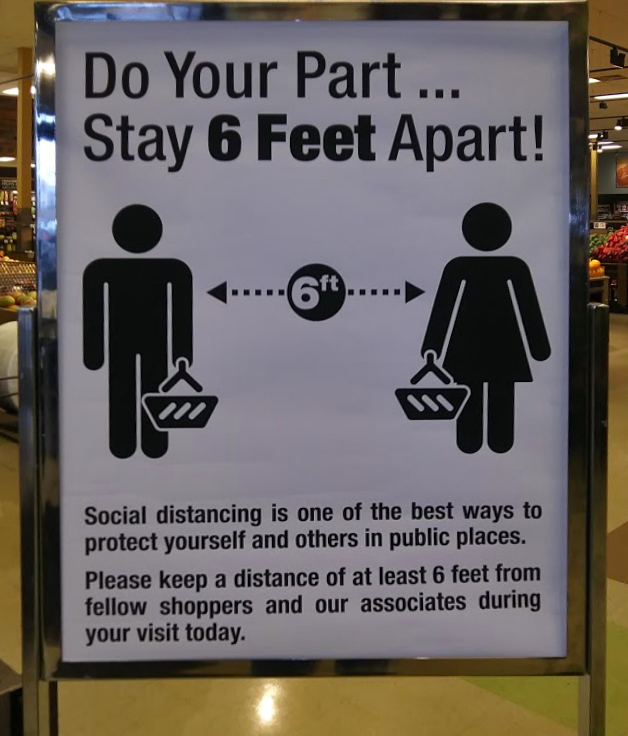 Sign at a ShopRite supermarket near Montgomery, NY, USA, advising shoppers on social distancing rules to prevent spread of COVID-19